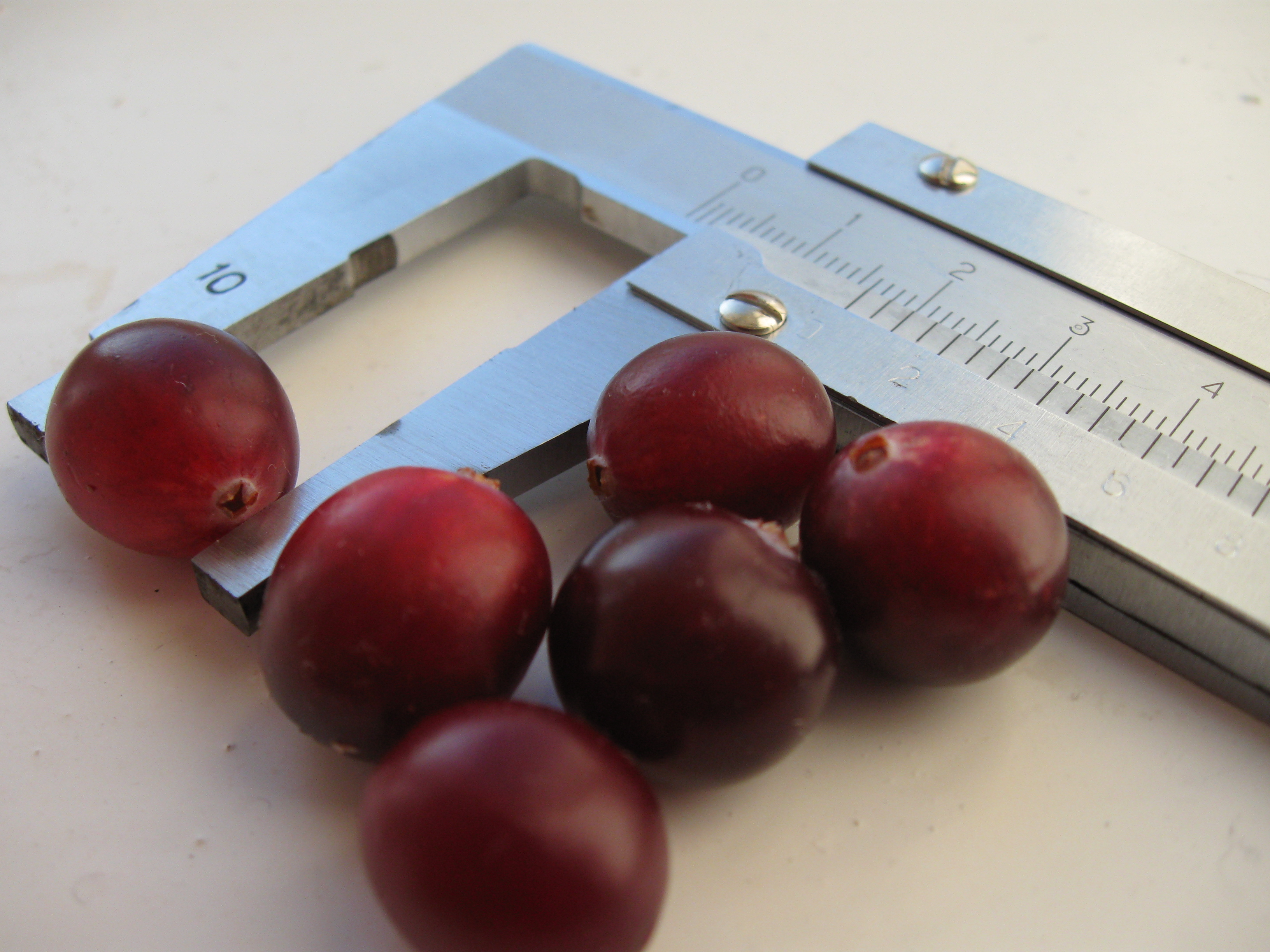 Berries cranberries. Collected in Russia in the Republic of Karelia. Olonets plain. Swamp", Cupusa". Berries length of 16.2 mm.